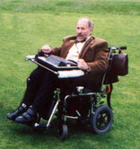 The Late Prof S Selwyn seen using his electrically propelled wheelchair. This specially adapted chair was capable of travelling at several mph over a variety of reasonably level surfaces including pavements and short grass. He controlled the chair using a micro switch and mini-joystick (see right hand). Note he has his "lightwriter" fixed to a table in front of him, as was his habit at that time. His briefcase is hooked over the handles behind him!